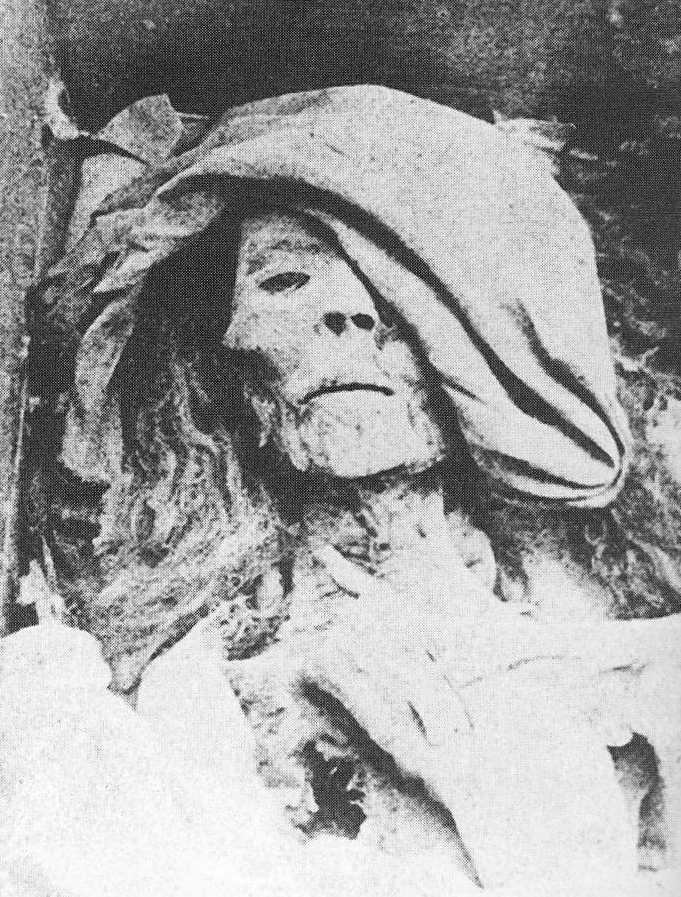 An image of "The Elder Lady" mummy as found in situ within KV35. Picture taken by Victor Loret and originally published in 1899, so long out of copyright.